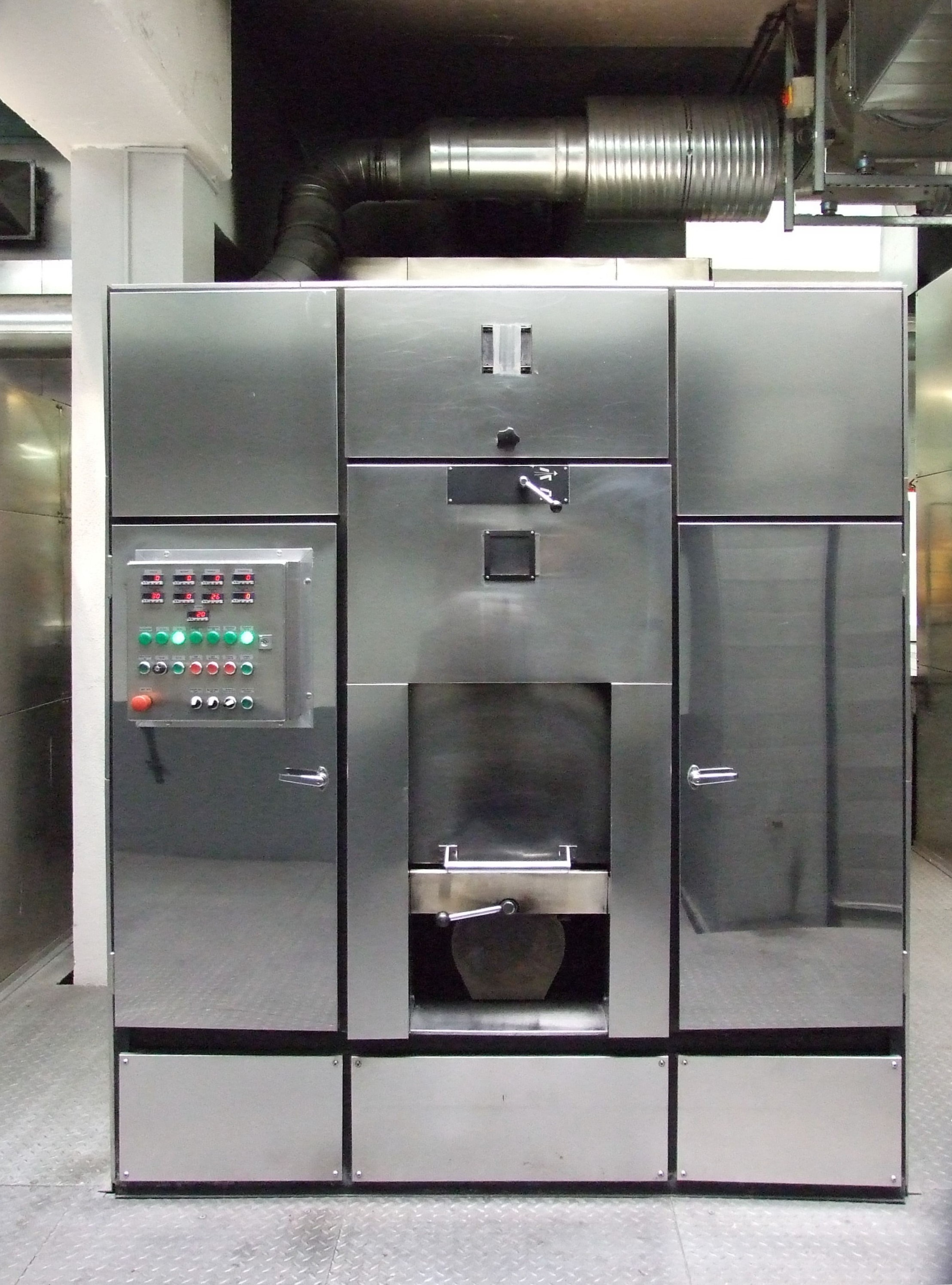 Furnace rear, crematory, Hauptfriedhof, Frankfurt am Main, Germany